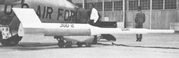 Jaguar sounding rocket beside its B-57 launch aircraft.